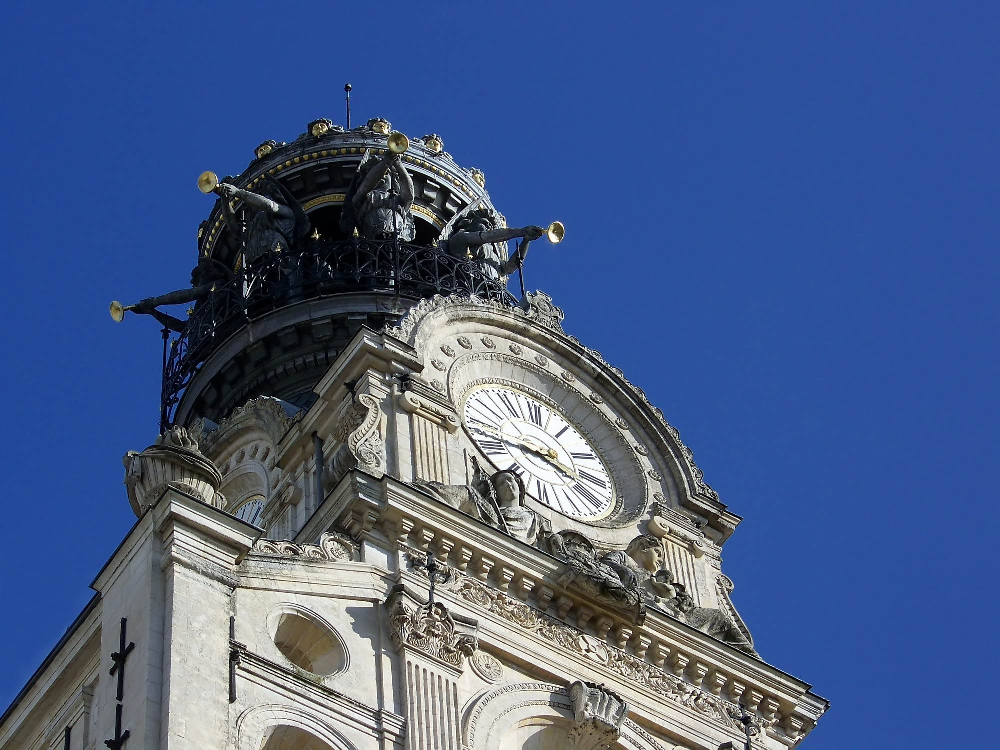 Belfry of the church Sainte-Croix (Holy Cross) in Nantes.